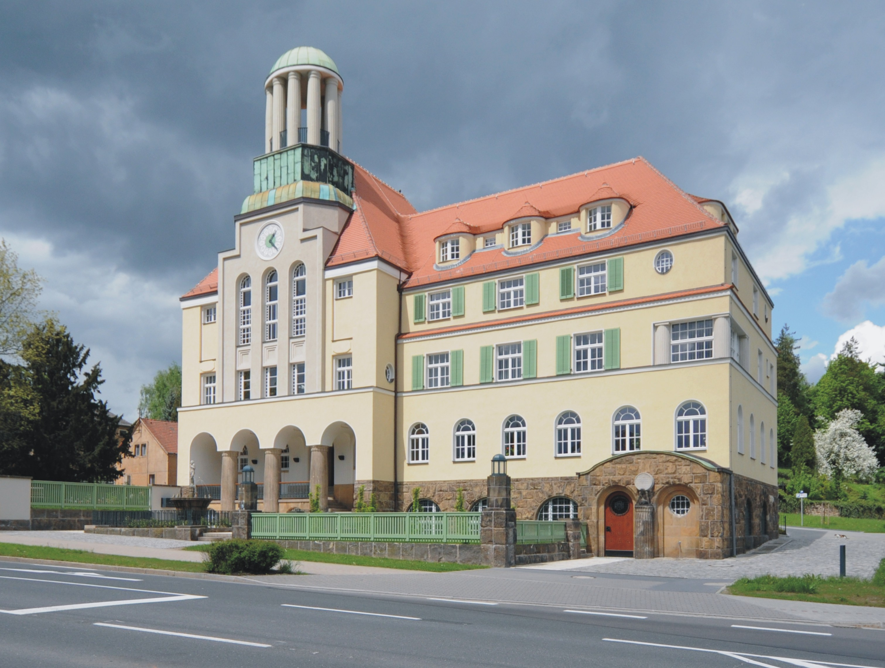 Town hall Doehlen, (subdivision of Freital). Planned by Rudolf Bitzan and built 1914–1915. On October 1, 1921 the communities Deuben, Doehlen and Potschappel signed a treaty merging into a new town, for which they adopted «Freital». 1952–1994 office of the district of Freital. 1994–2010 out of use. 2010–2012 reconstruction, which costed 2.4m €. Since 2012 office of the public housing association.